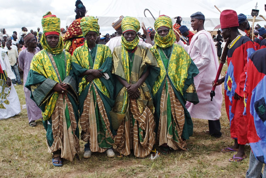 Kaduna Nigeria, This are the young Hausa men dressed in complete Traditional attire. This is an image of Cultural Fashion or Adornment from Nigeria